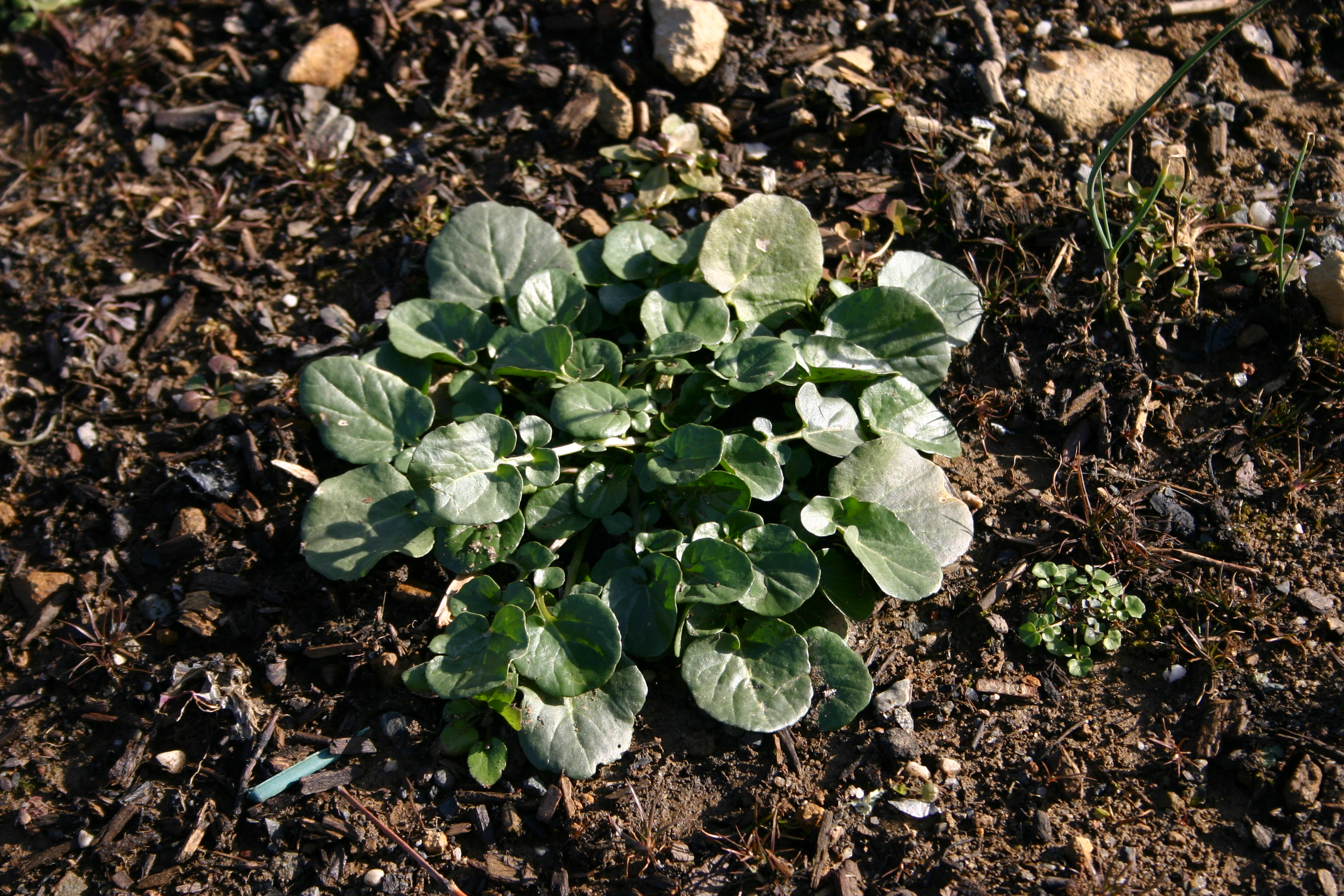 Winter form of Barbarea vulgaris